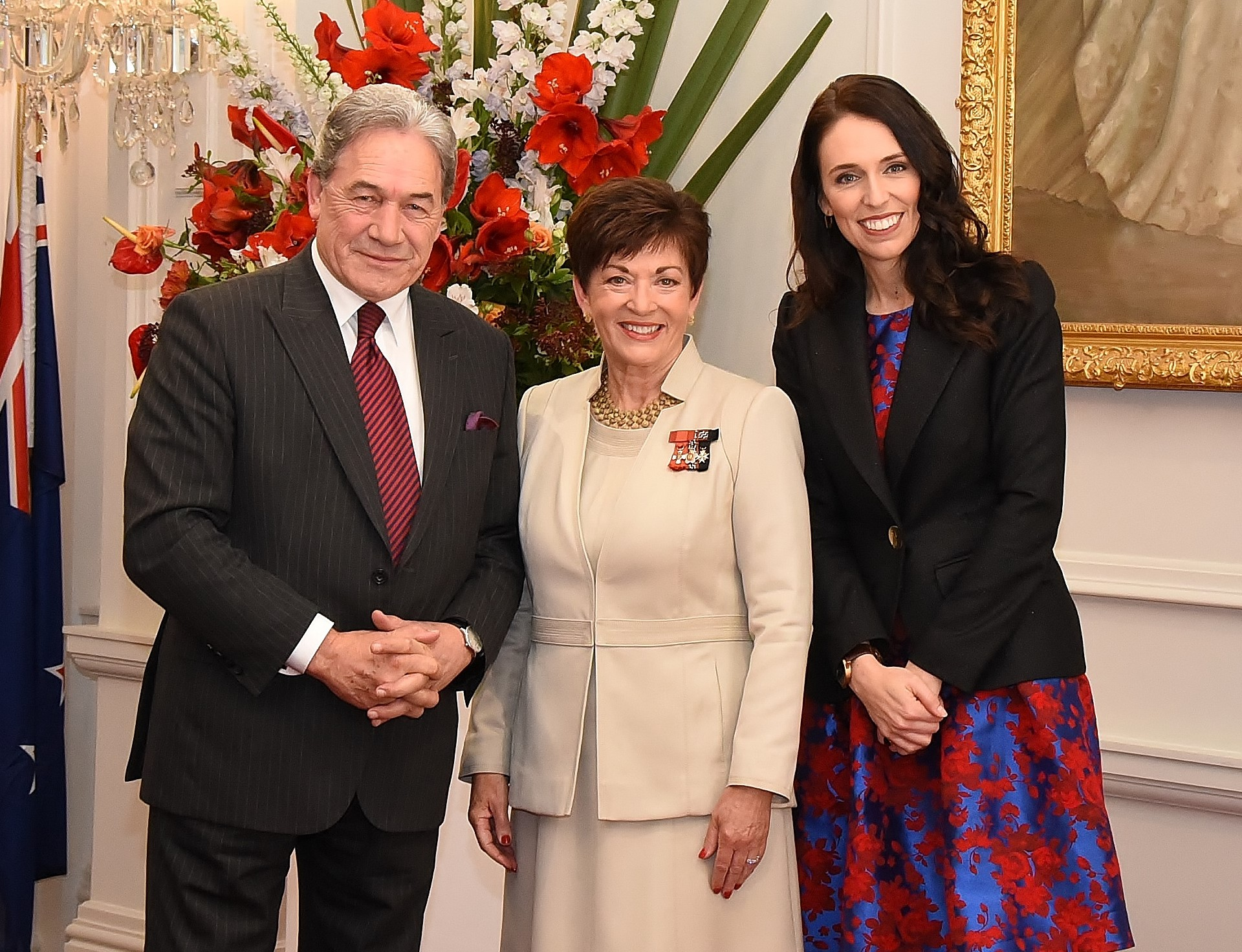 Dame Patsy Reddy (Governor General) with PM-designate Jacinda Ardern and Deputy PM-designate Rt Hon Winston Peters before the Swearing-in